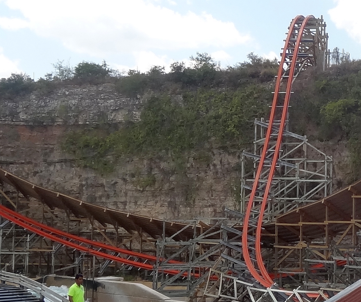 Crop of File:Iron Rattler 28.jpg